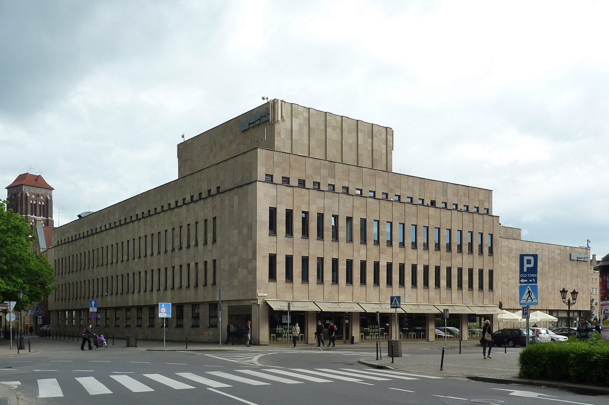 Wybrzeże Theatre in Gdańsk.